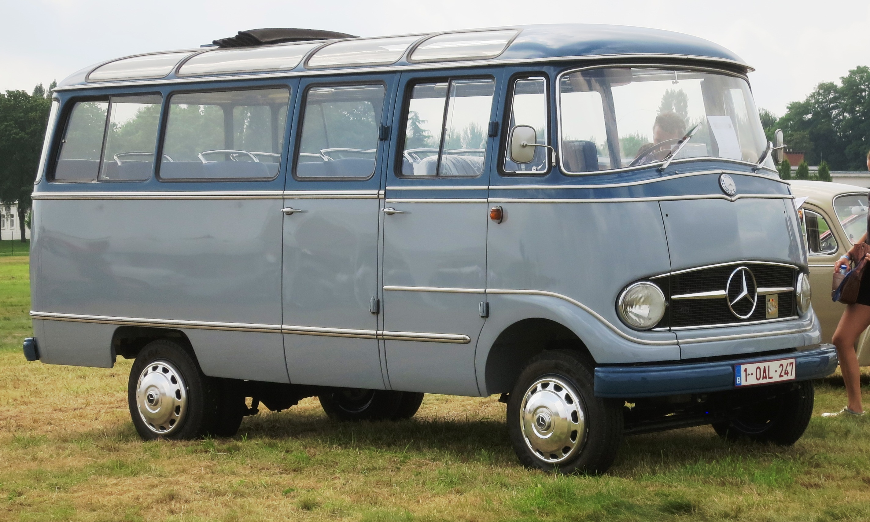 Mercedes-Benz O319 at Schaffen-Diest 2016